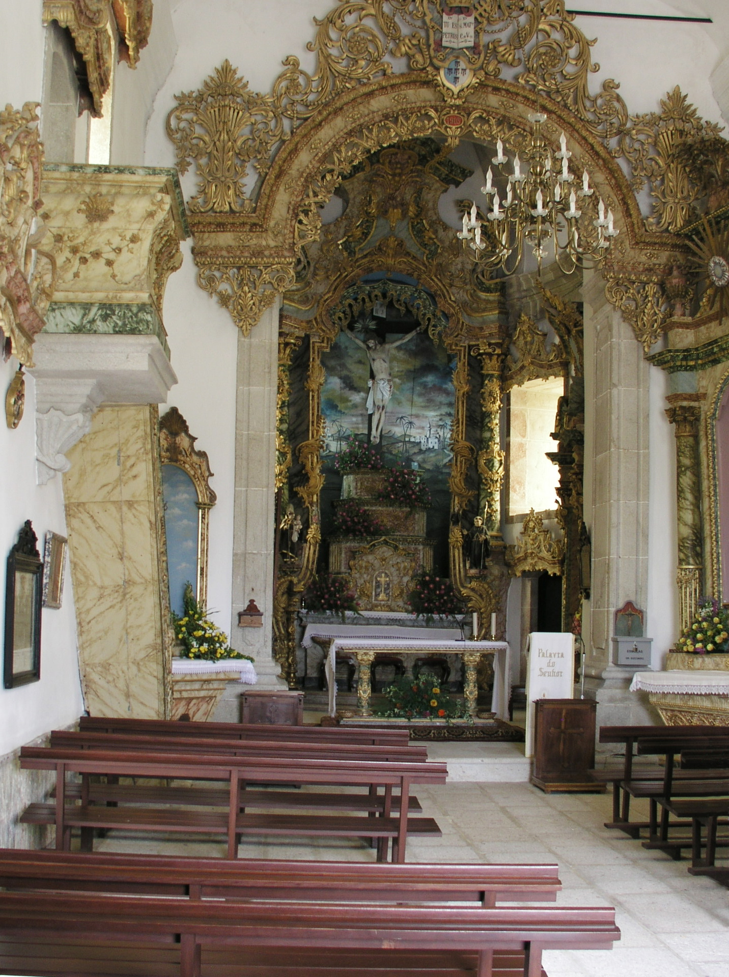 Church of Our Lord of Socorro, Labruja, parish/(freguesia), Ponte de Lima, Portugal.